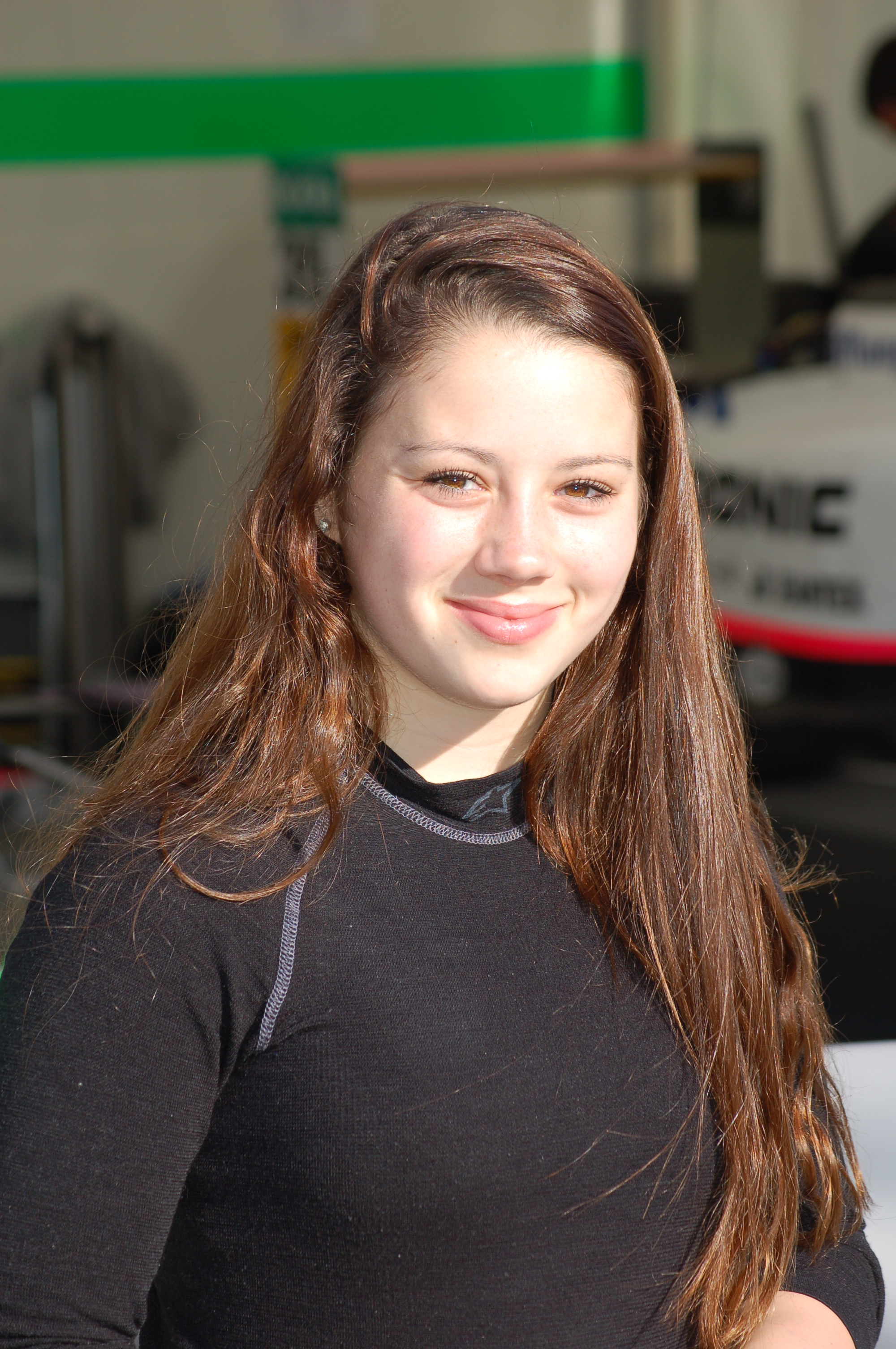 Carrie Schreiner at Hockenheim 2015